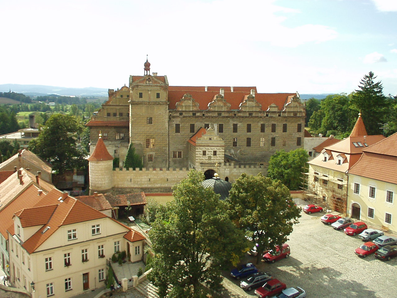 Castle Horšovský Týn